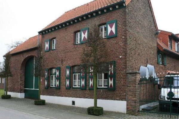 Cultural heritage monument No. 52 in Selfkant